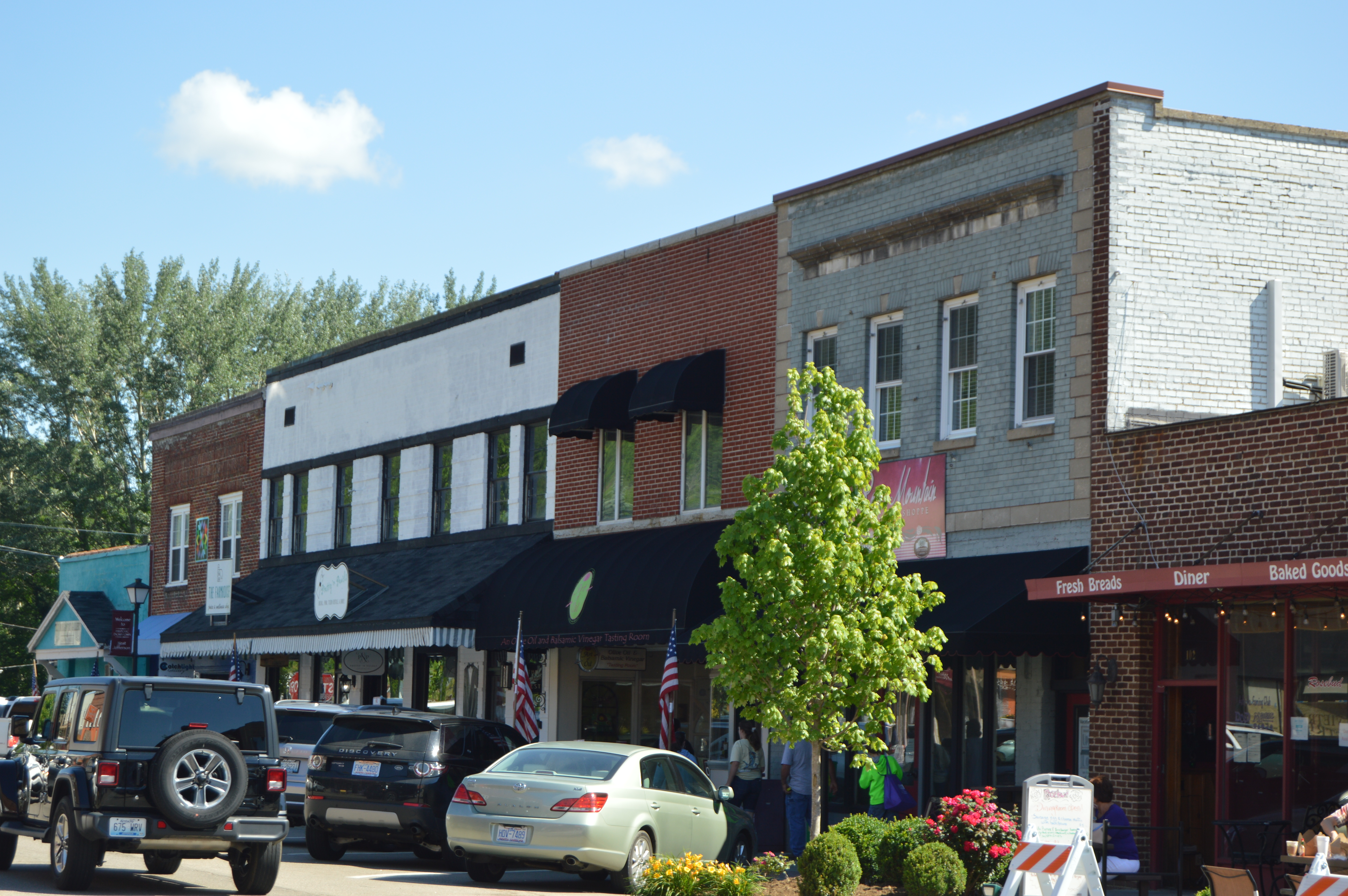 Buildings on Jefferson Avenue north of First Street in West Jefferson, North Carolina, United States. This block is part of the West Jefferson Historic District, a historic district that is listed on the National Register of Historic Places.